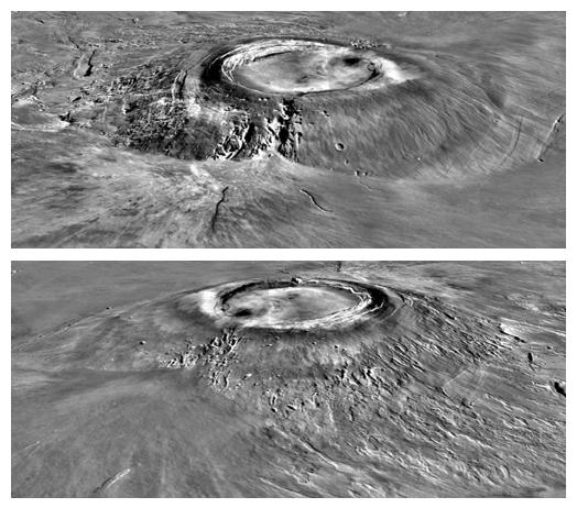 Two views of Arsia Mons, based on Viking orbiter imagery and Mars Global Surveyor elevation data, from the south (top) and north (bottom). Arsia Mons is the southernmost of the Tharsis Montes. It is depicted using a Viking image mosaic draped over MOLA topography. The topography shows the caldera structure and the massive flank breakouts that produced two major side lobes on opposite sides of the volcano. The vertical exaggeration is 10:1.